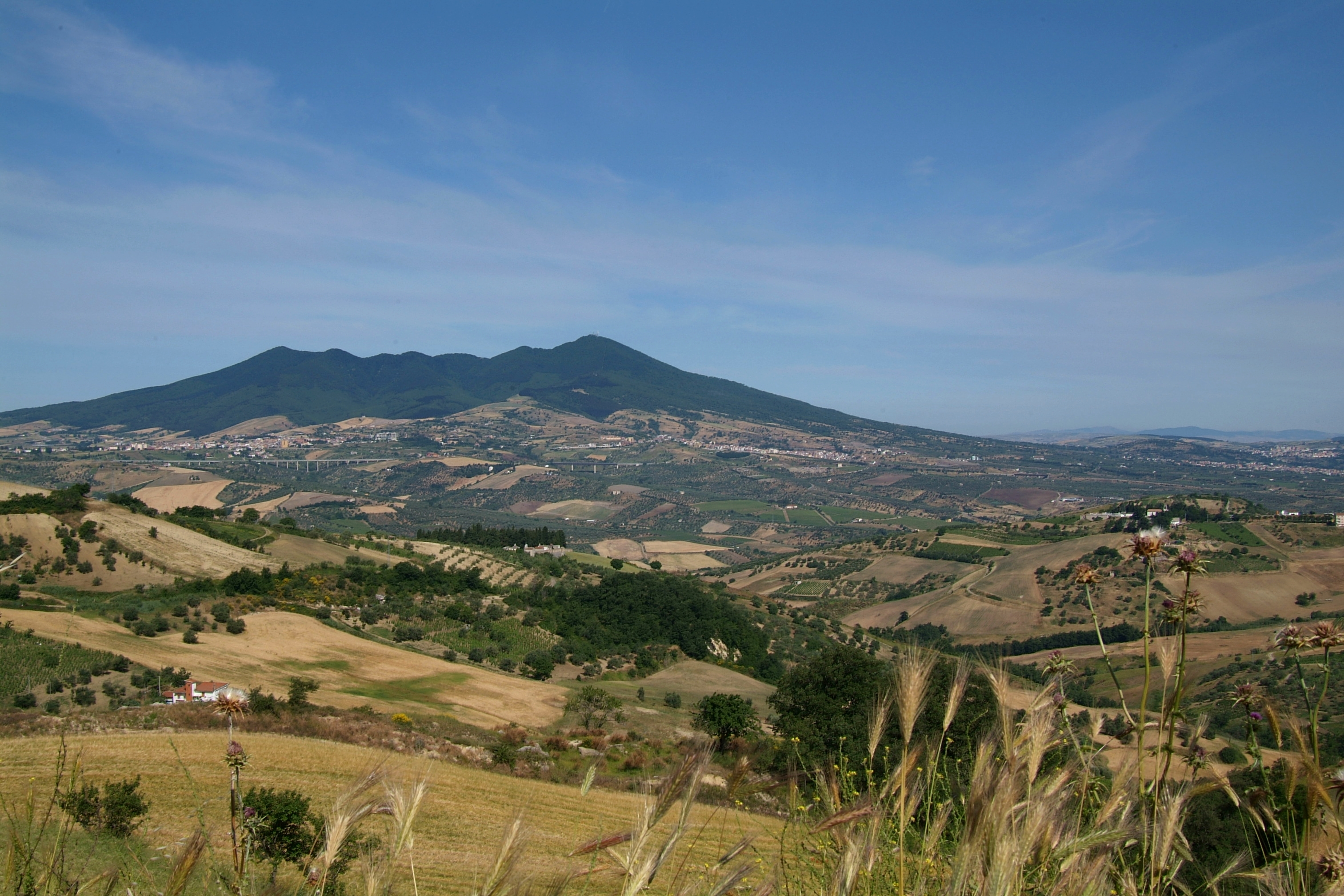 View of Mount Vulture